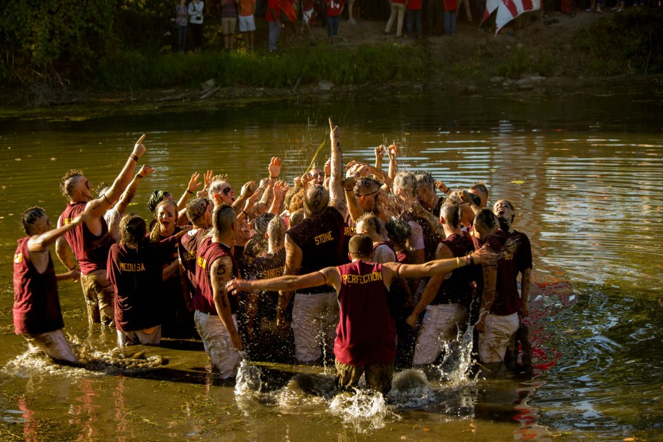 Image for descriptive purposes in The Hope College Pull. Shows a Pull Team taking their celebratory swim after victory.